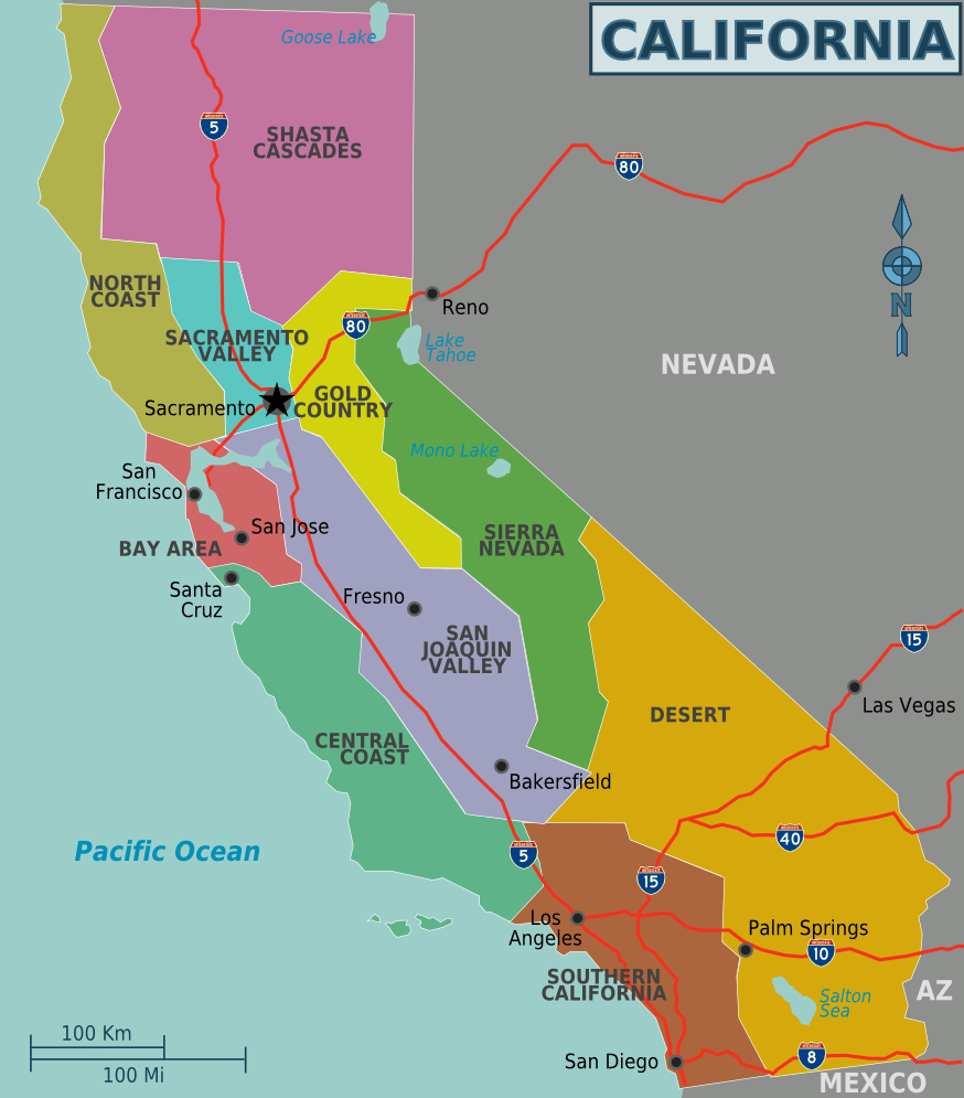 Map of California. Moved here as part of Wikivoyage migration.